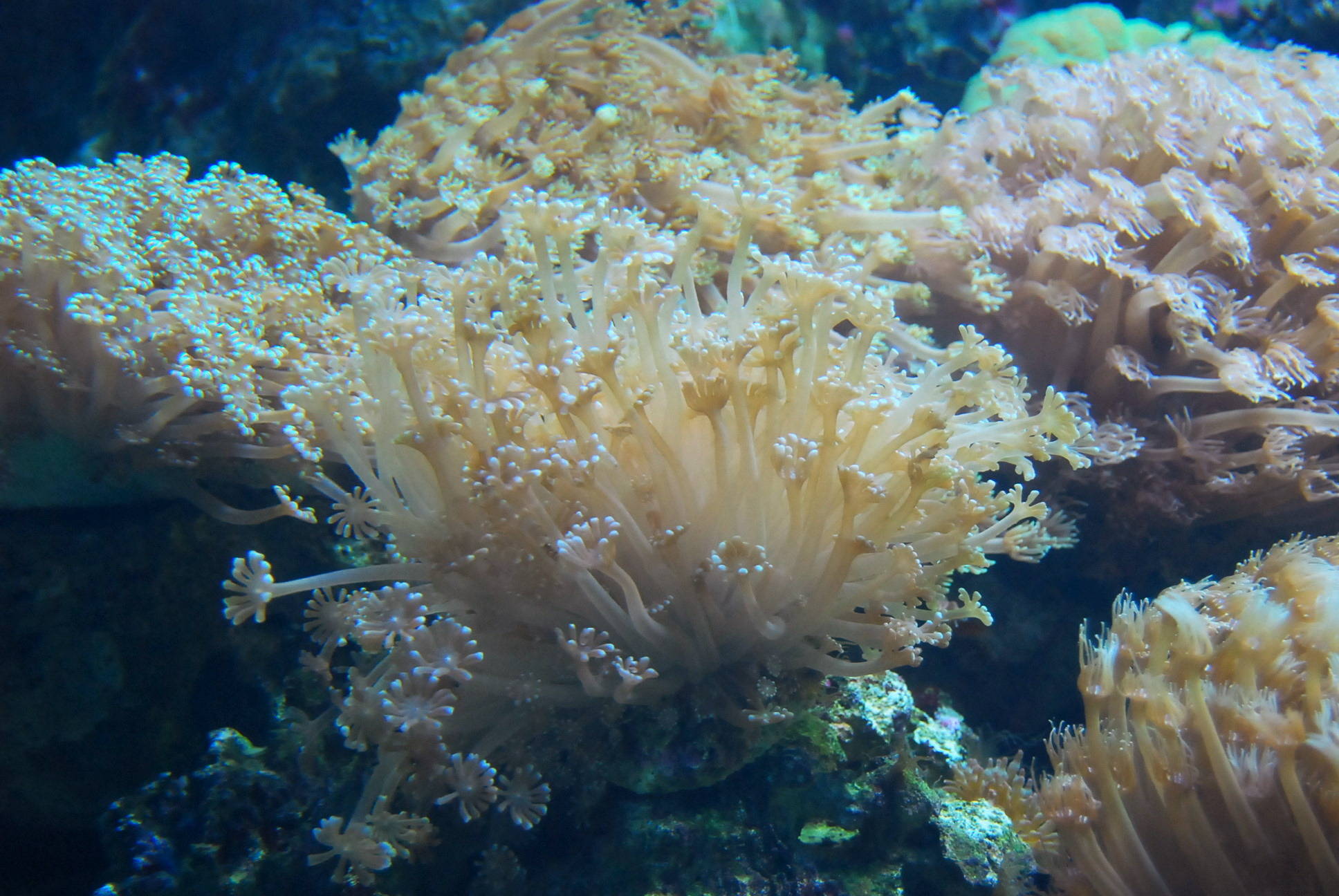 goniopora lobata